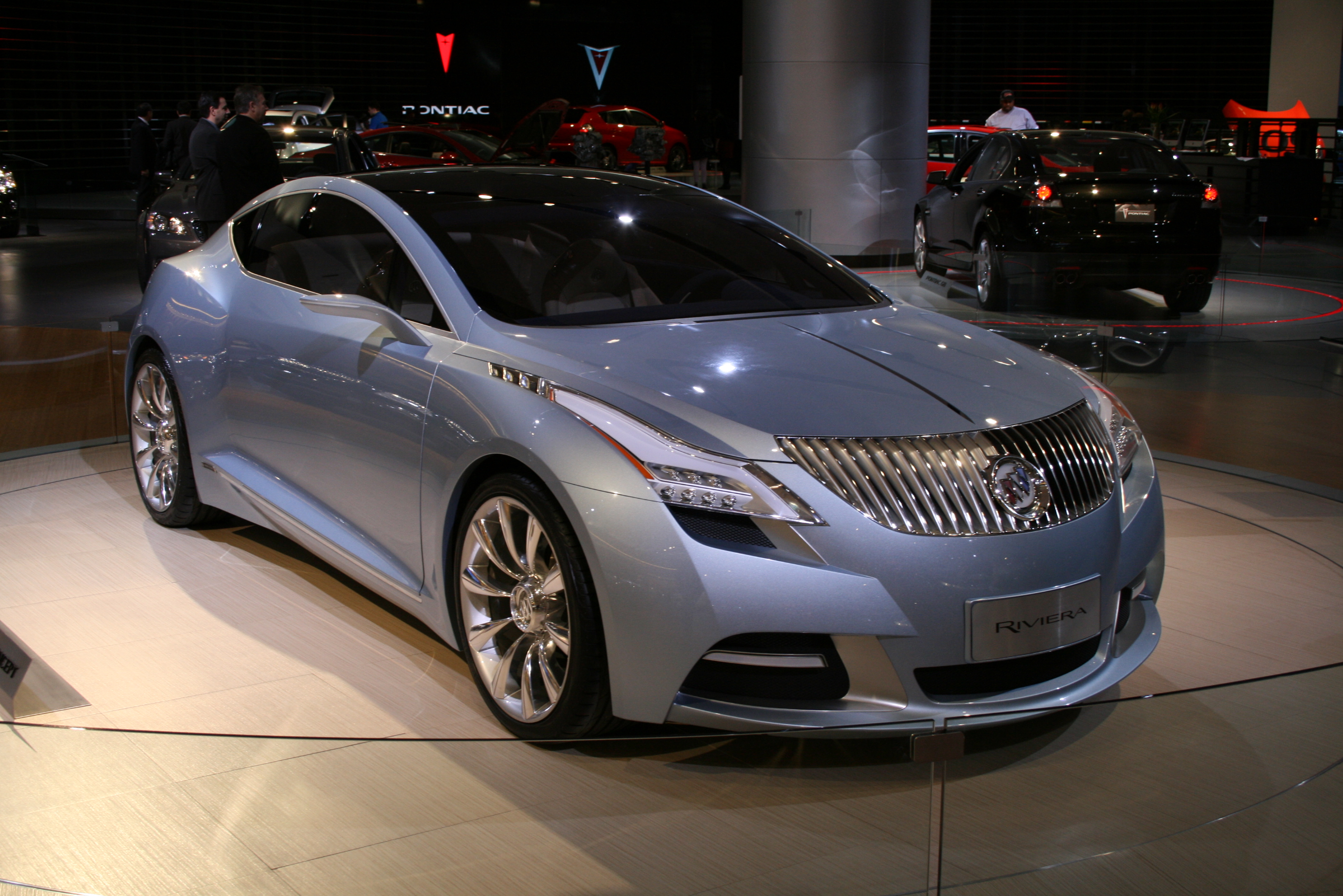 Buick Riviera concept car by GM DESIGN taken at 2008 North American International Auto Show